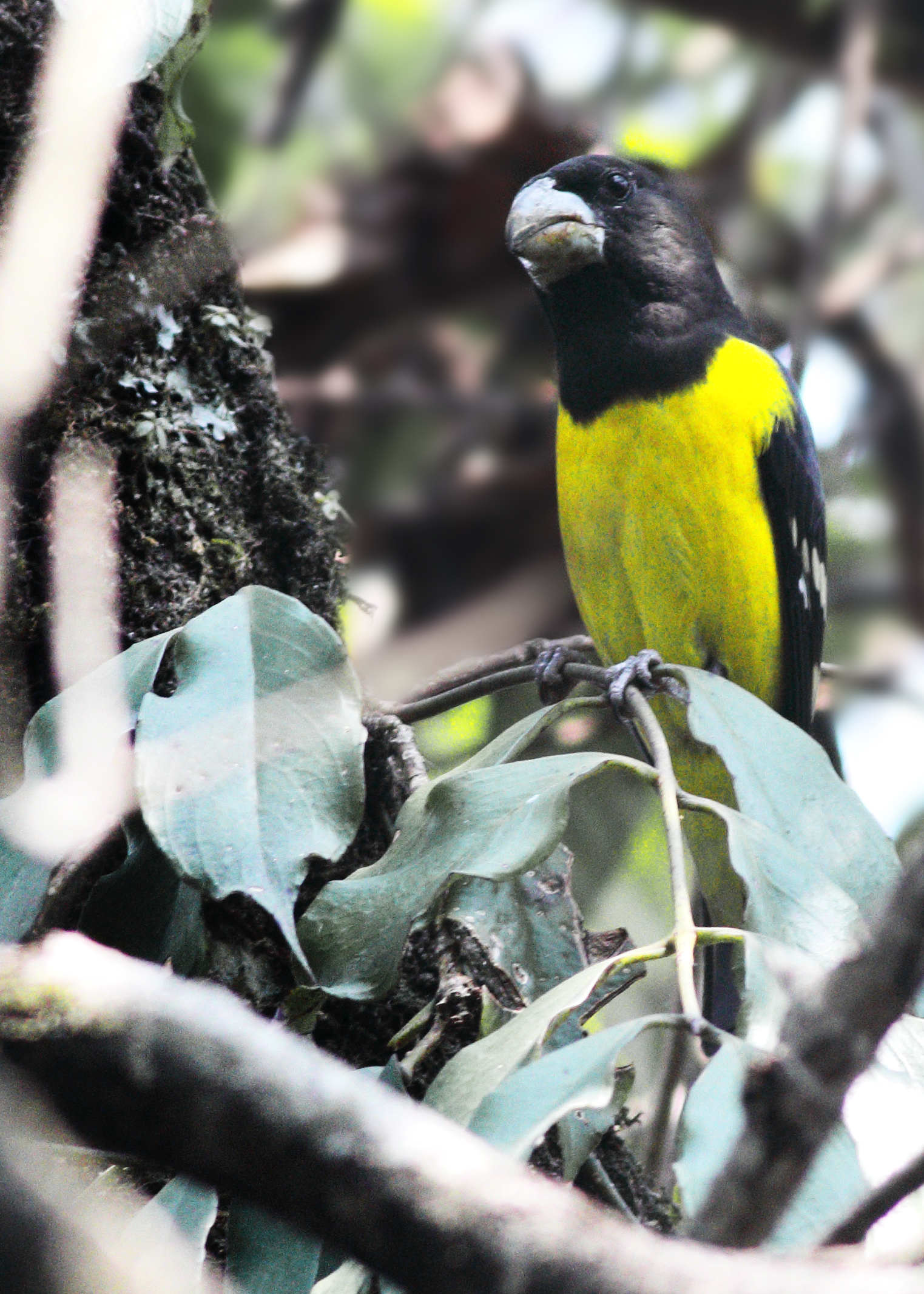 Spot-winged Grosbeak Sheyam North Sikkim 13.03.2019.